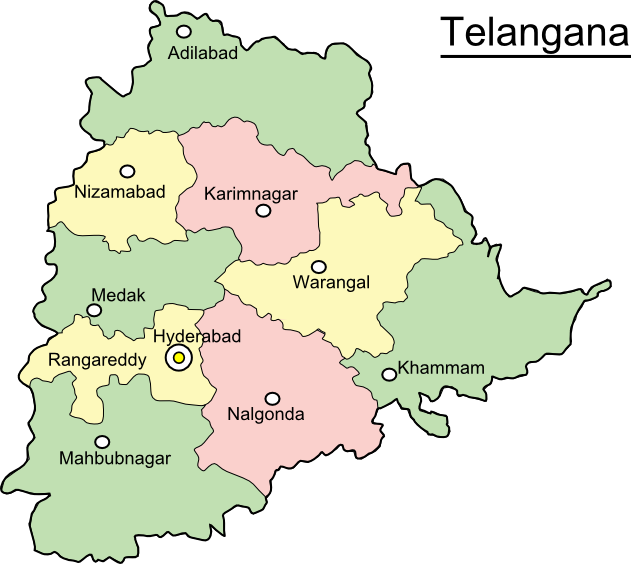 Telangana Map